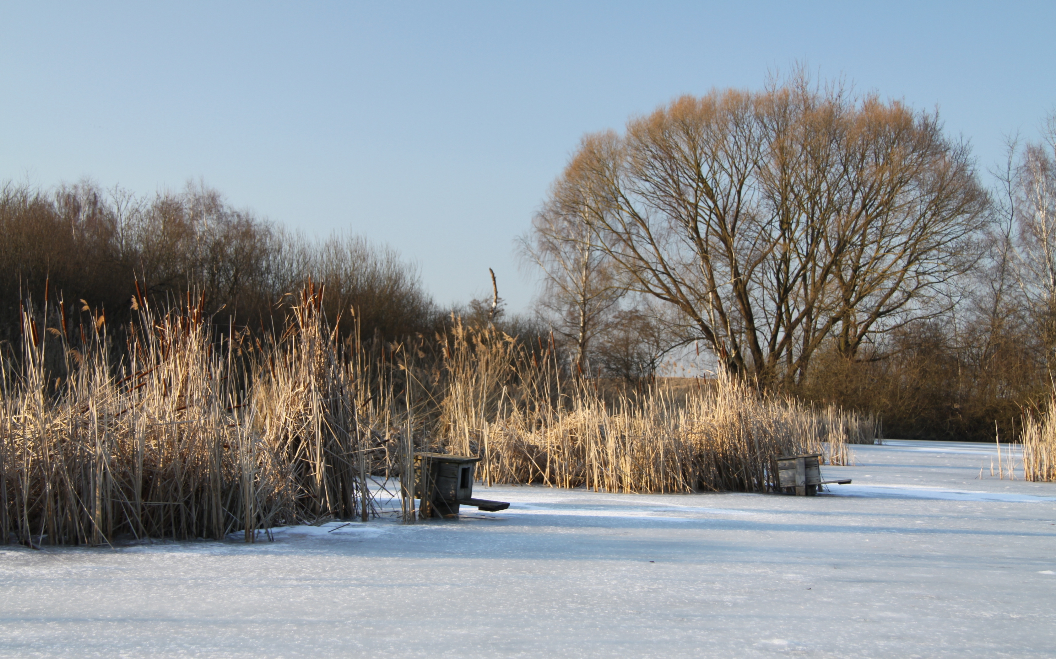 Natural monument Ražický rybník near Ražice village, Písek district, Czech Republic